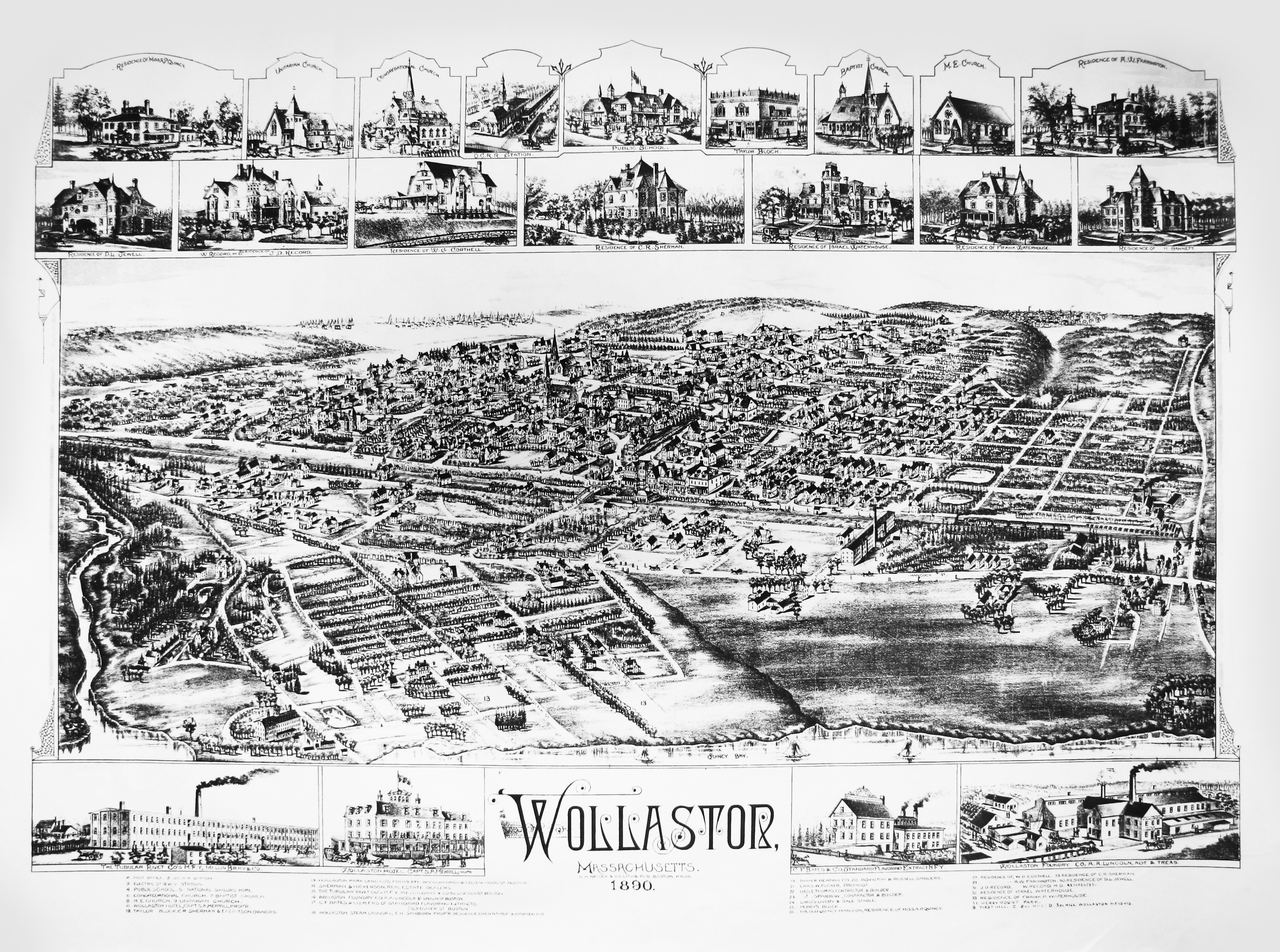 Wollaston, MA